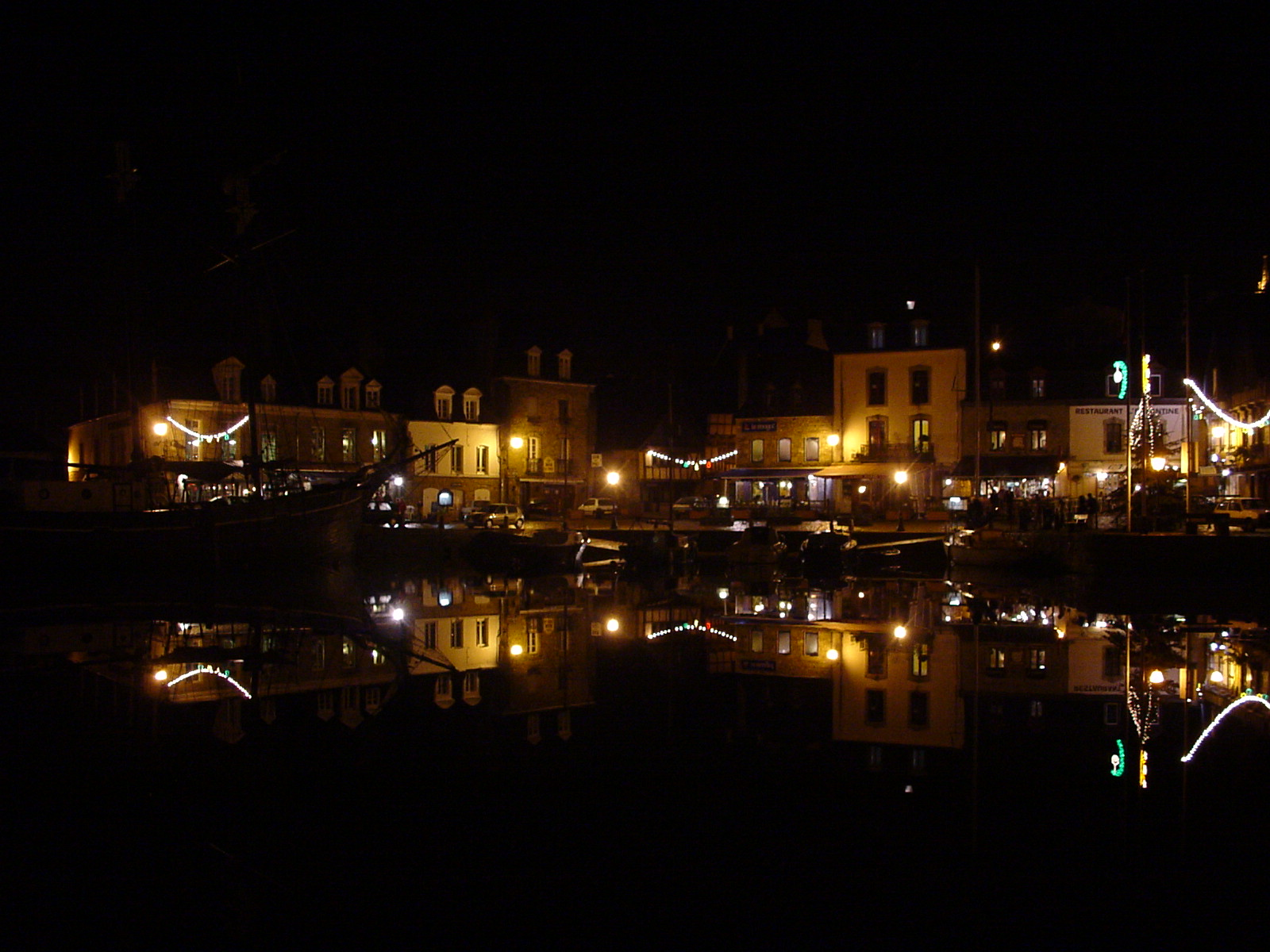 Quai Benjamin Franklin, in Auray, in the port of Saint-Goustan, Britain, France